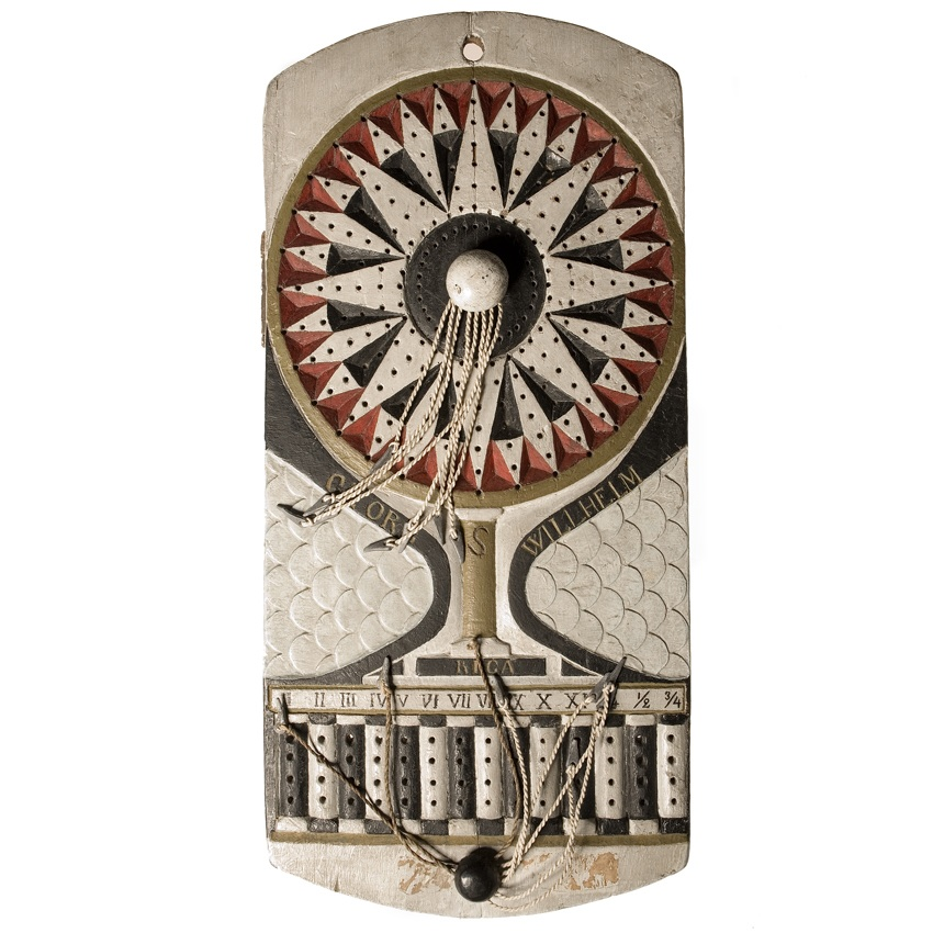 Swab compass once belonged to the ship GEORG WILHELM, Riga